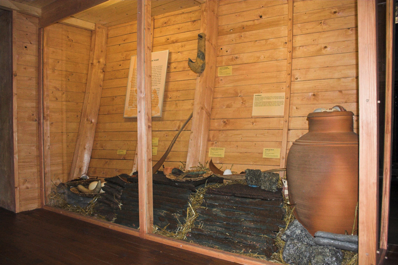 Information Description: Scenery with replica and original artefacts from the Uluburun exhibition at Bochum Source: own work Date: June 2006 Author: Martin Bahmann